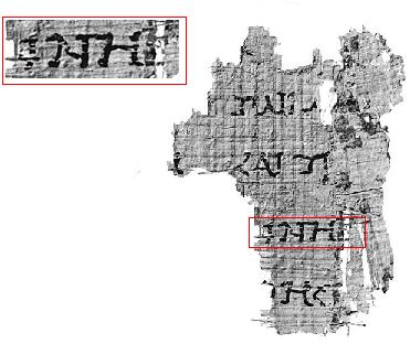 Combination "nne" in the fourth line of 7Q5